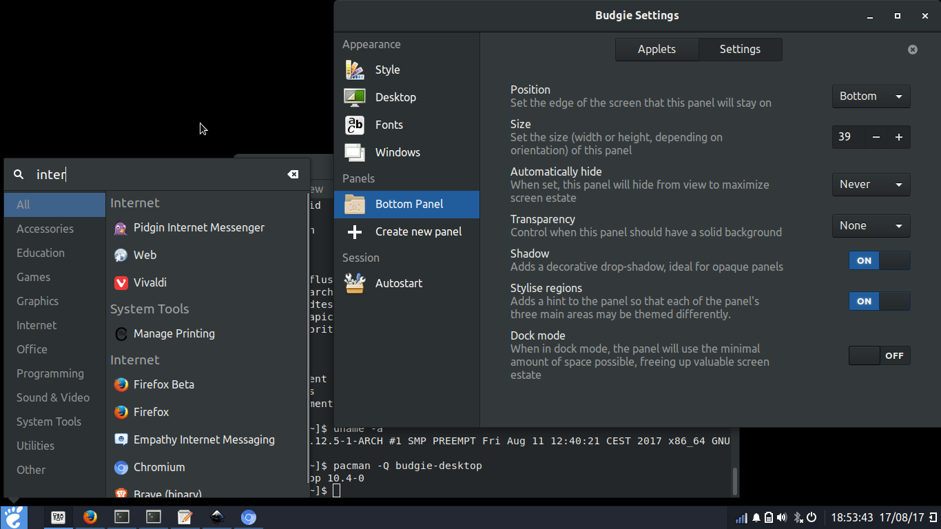 Screenshot of Budgie (desktop environment) version 10.4 showing settings dialog, panel, and open menu